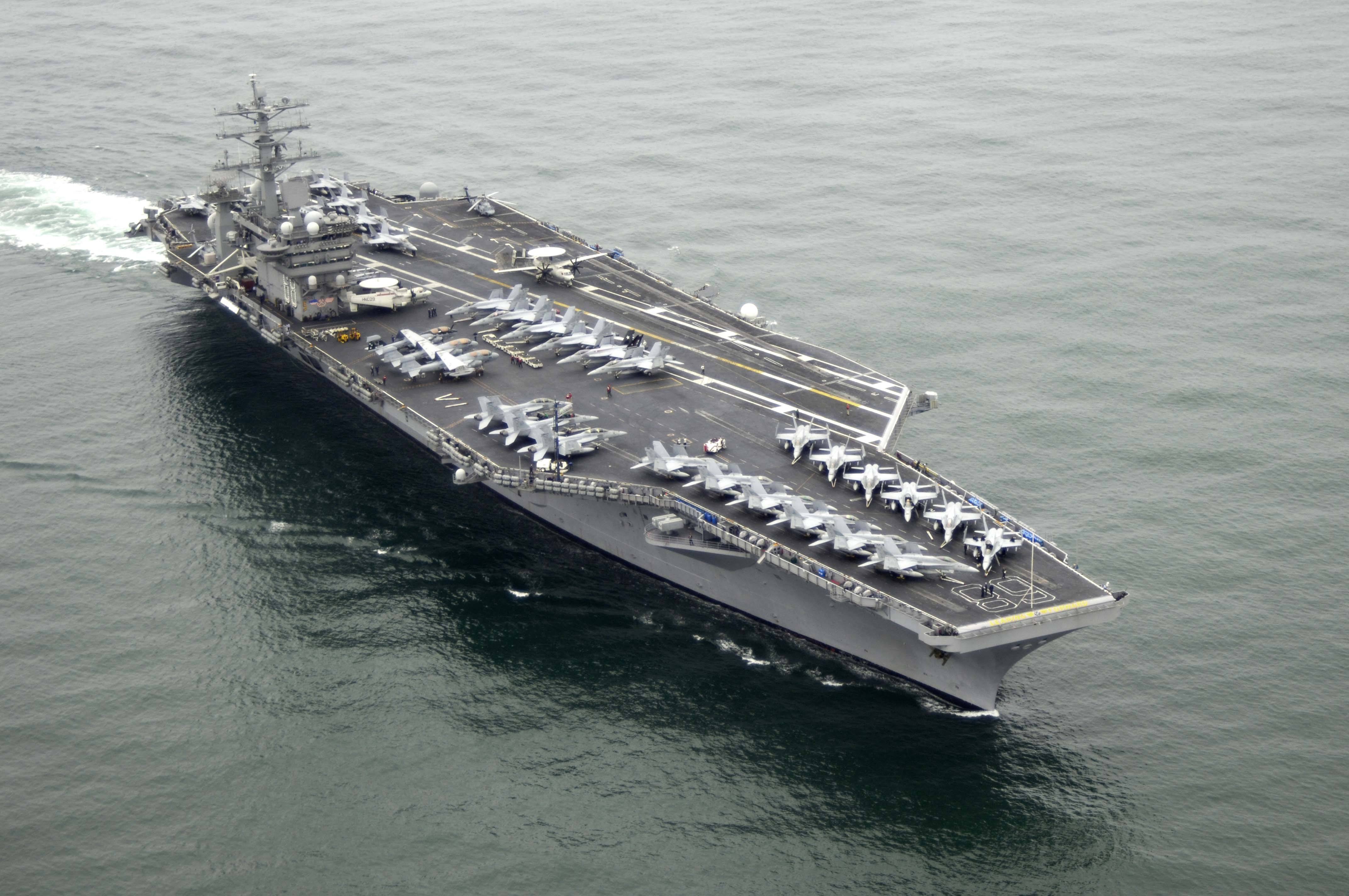 The aircraft carrier USS Nimitz (CVN 68) and embarked Carrier Air Wing (CVW) 11 transits into San Diego prior to mooring at Naval Air Station North Island. Nimitz is preparing for a 2009 regularly scheduled Western Pacific Deployment.